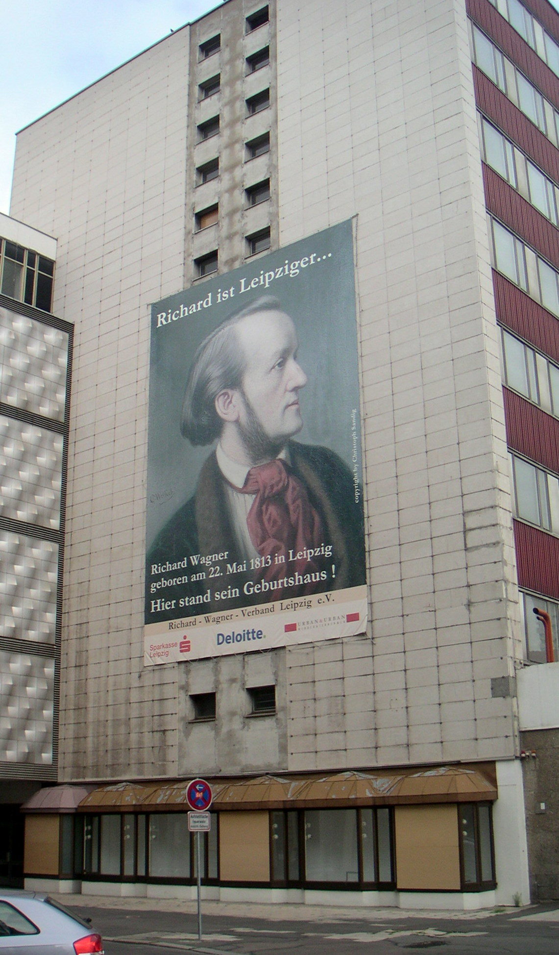 Poster on building on site of Wagner's birthplace at no. 3 , the Brühl, Leipzig